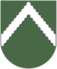 Coat of arms of Sosnovy Bor